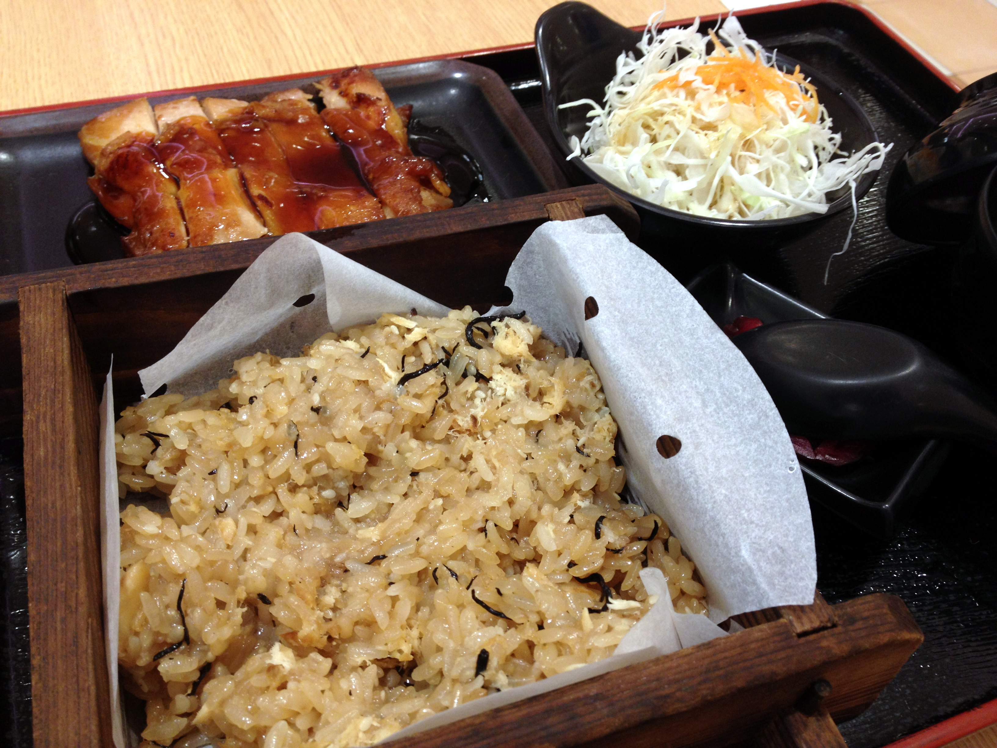 Okowa （おこわ）, sticky glutinous rice mixed with all kinds of vegetables or meat and steamed served with Teriyaki Chicken and Japanese Coleslaw from Yonehachi restaurant in Takashimaya Singapore